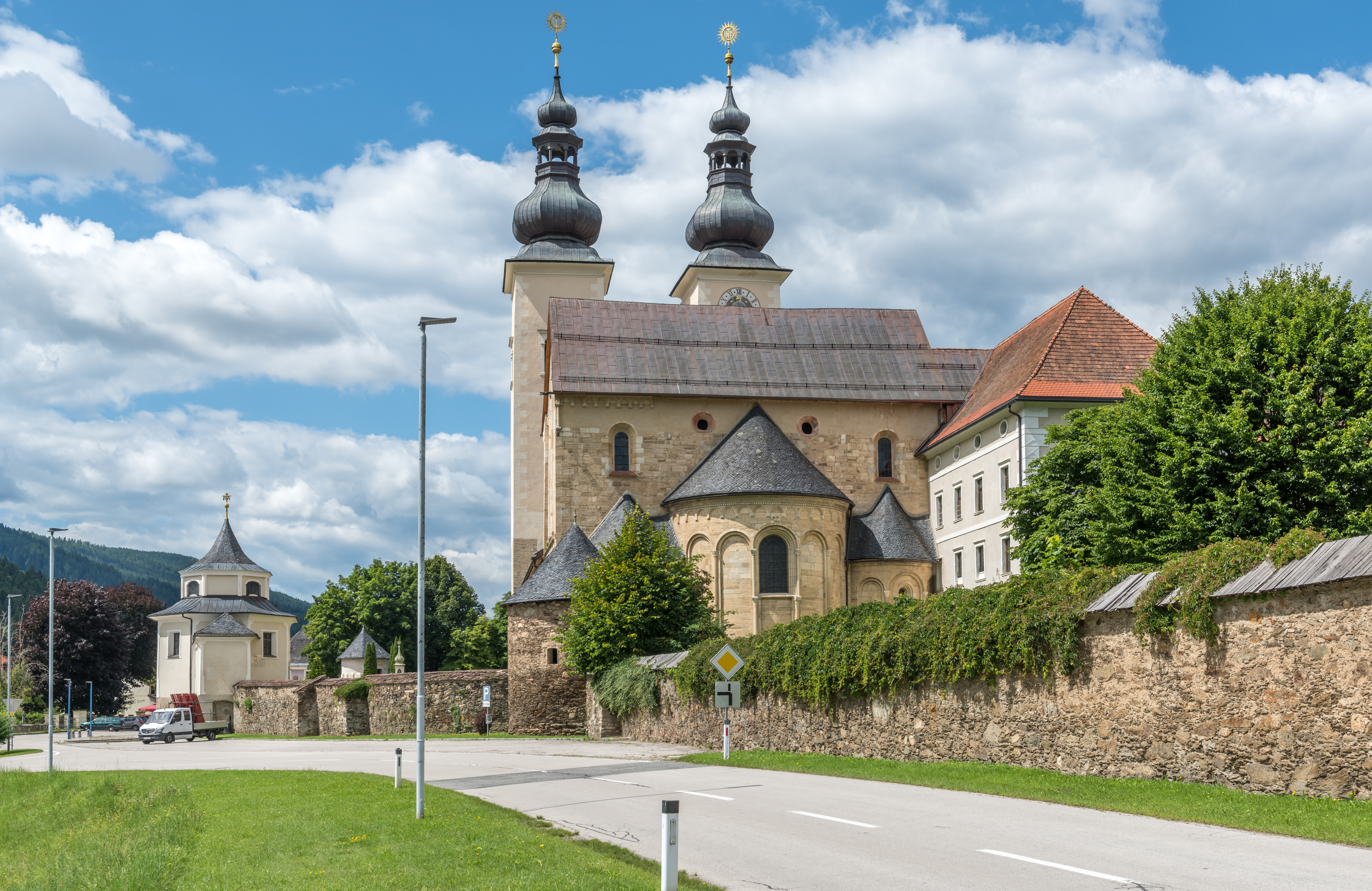 Eastern view of cathedral and fortifications, market town Gurk, district Sankt Veit, Carinthia, Austria, EU